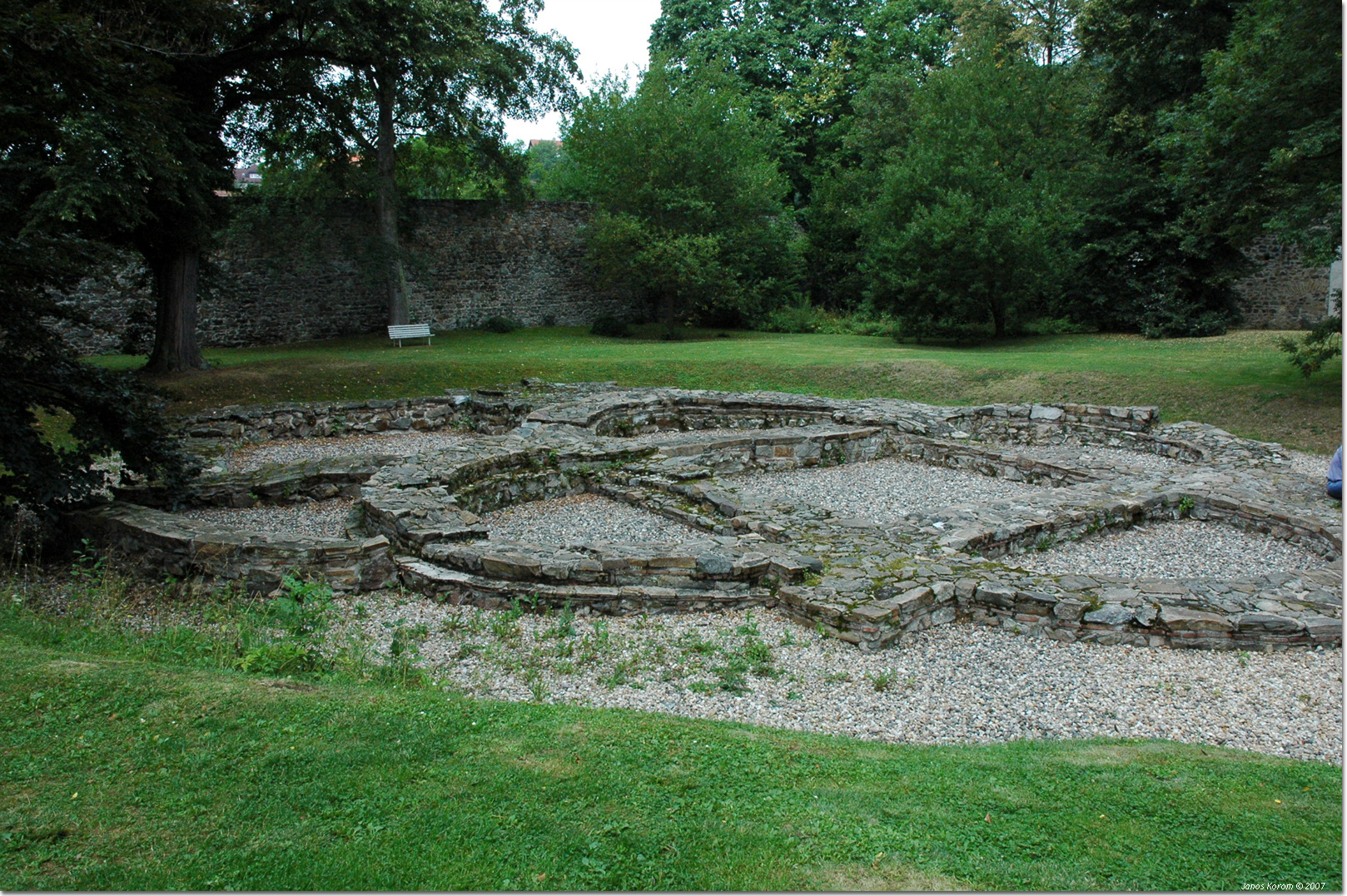 Foundation of the oldest stone church in Sazava monastery, Czech Republic. 11. century.